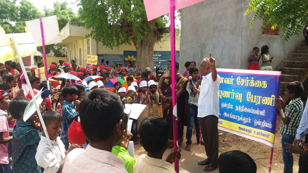 ADMISSION RALLY OF KURAVAN KULAM SCHOOL